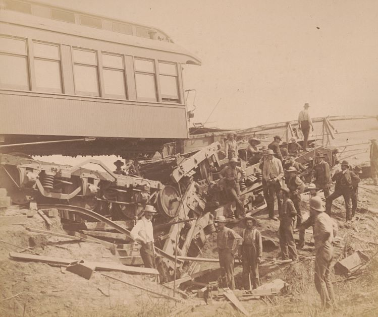 View of the great railroad wreck The most appalling railroad disaster on the Continent, on the T.P. & W.R.R. near Chatsworth, Illinois, of the Niagara Excursion Train, at midnight, August 10th, 1887 ; From south, showing sleeper "Tunis," the height and width of the culvert 5 1/2 by 8 feet, the cause of the wreck, and seventeen pairs of trucks in one pile. Photograph by Harlan Holferty.